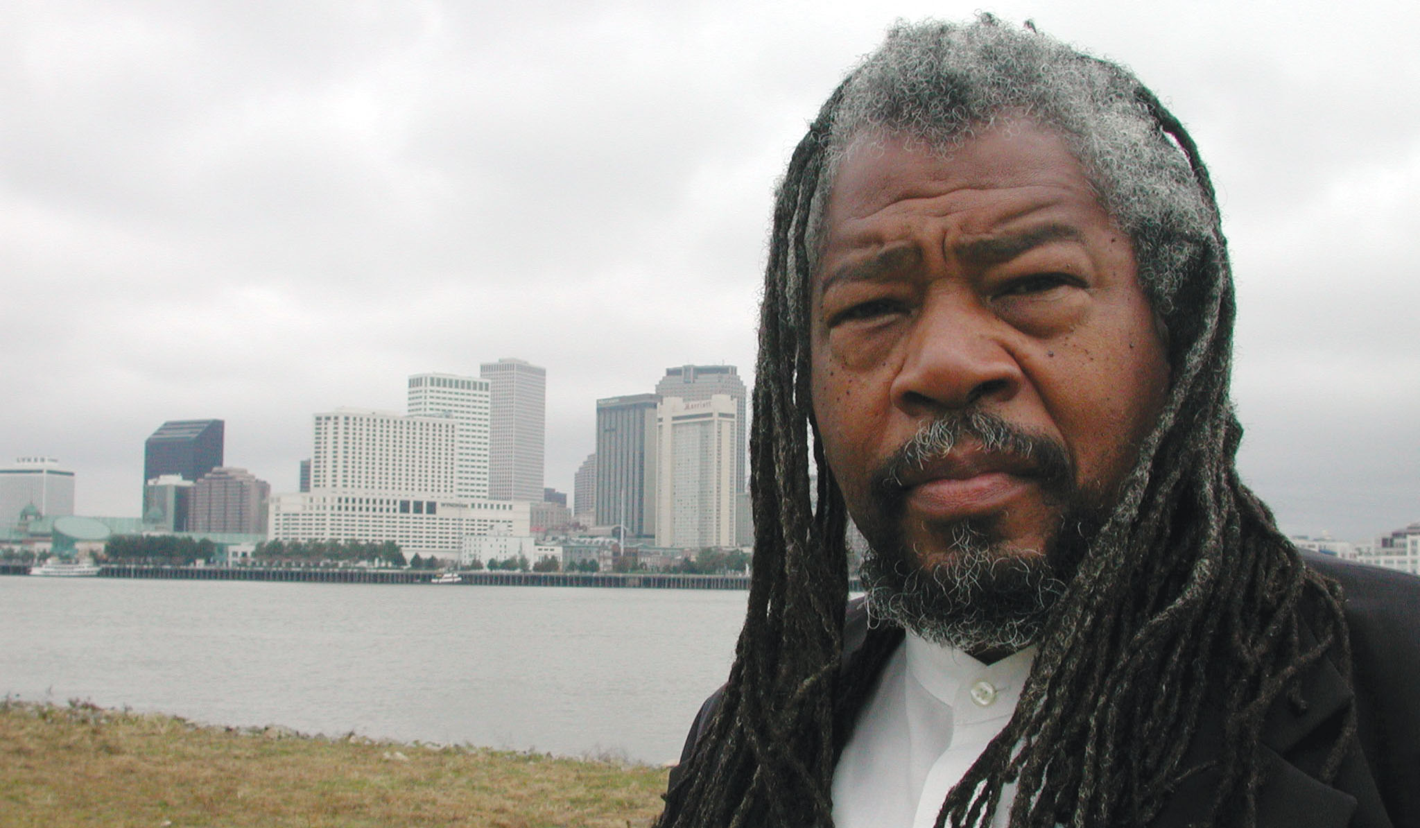 "Publicity photo for Malik Rahim's campaign for City Council At-Large." New Orleans 2001; shows Rahim with the skyline of New Orleans Central Business District across the Mississippi River in the background.